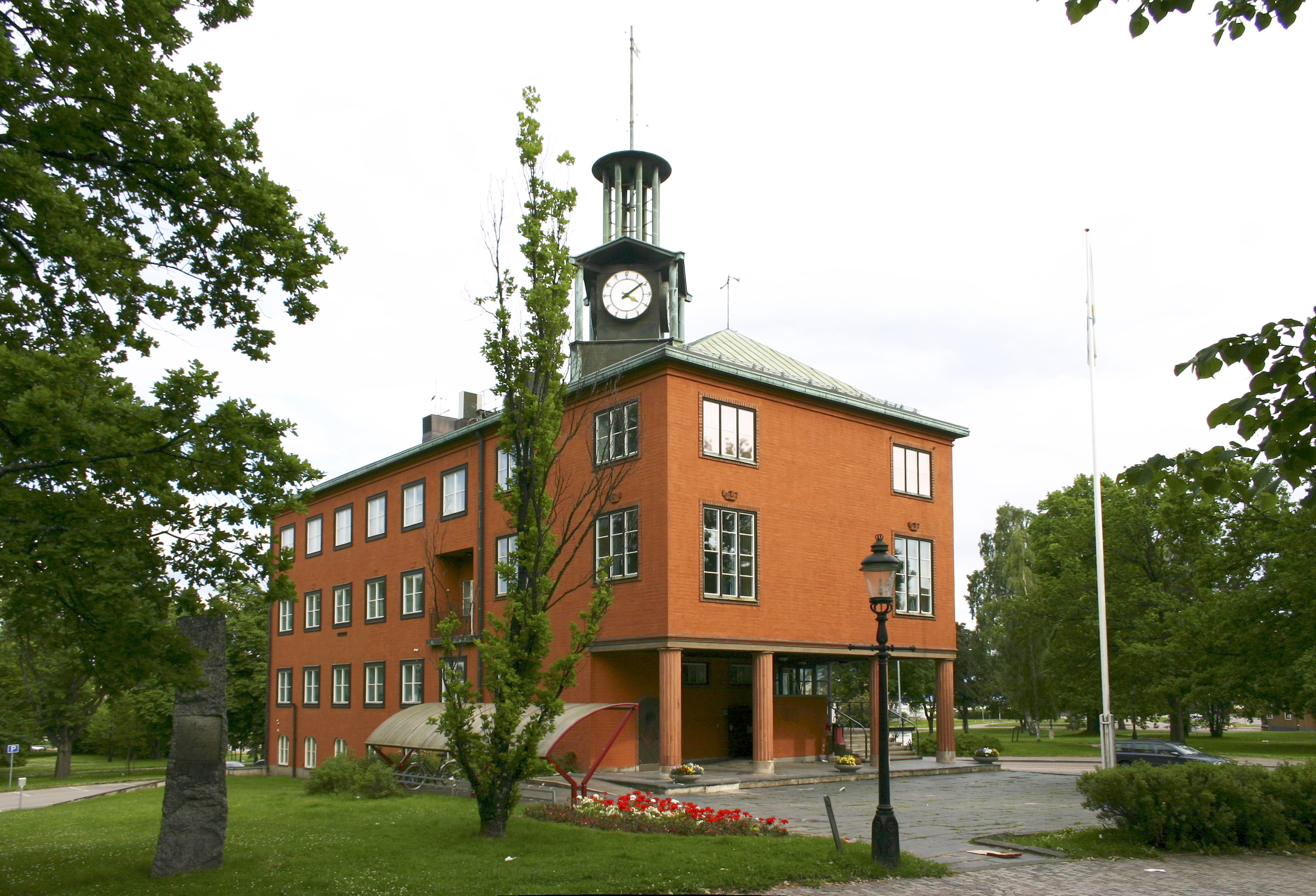 Photograph of Ludvika Town Hall ("Stadshus") in Ludvika, County Dalarna, Sweden. Designed in 1934 by architect Cyrillus Johansson (1884-1959), the Town Hall was opened in 1938 and remains in use as such to this day.